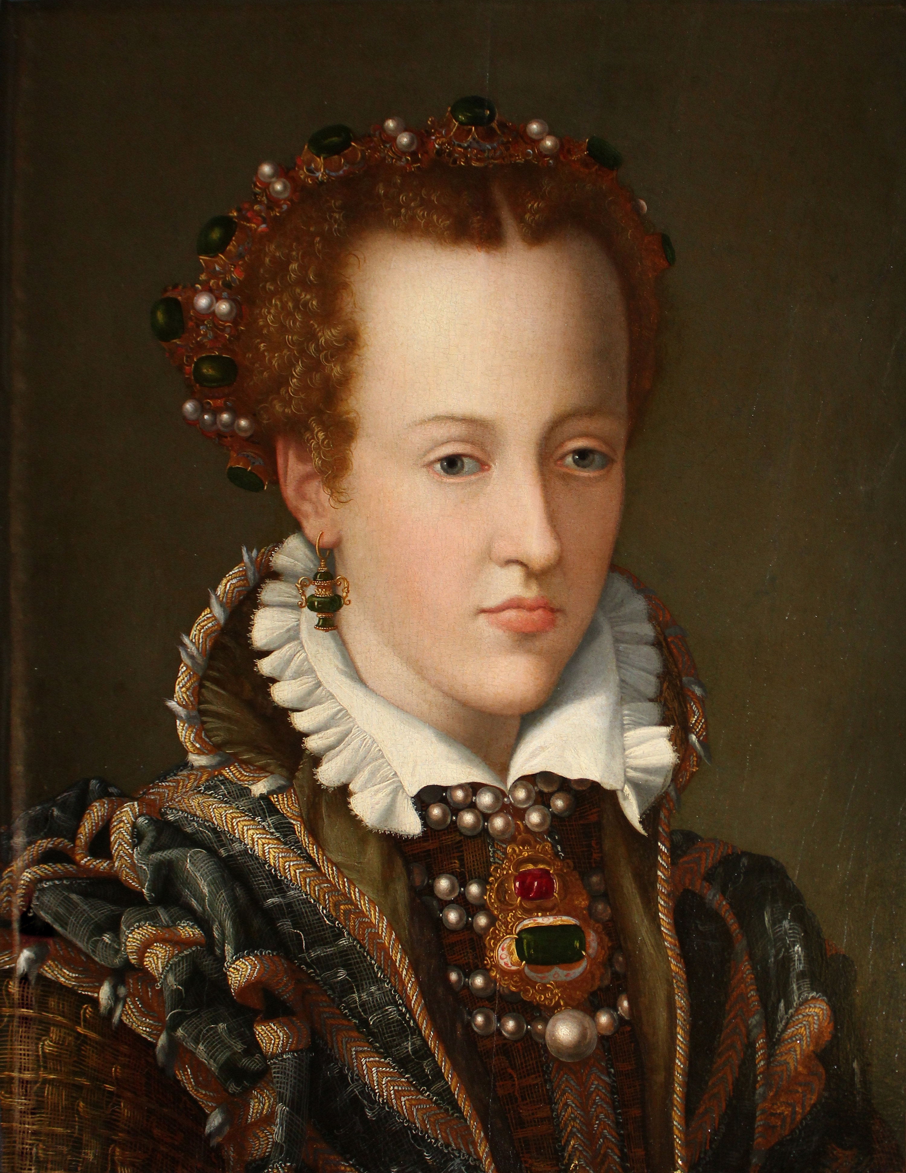 Portrait of Giovanna d’Austria (1548-1578)